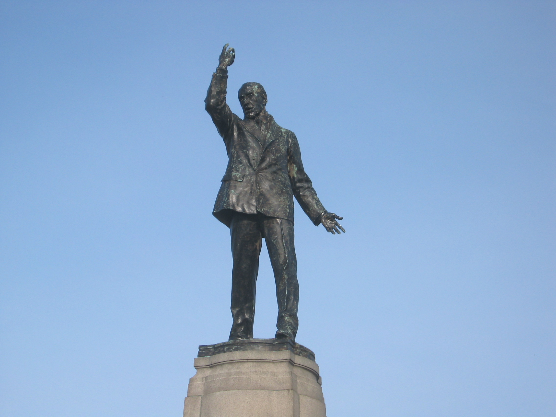 Edward Carson Memorial, Stormont Estate, Belfast.